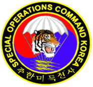 Distinctive Unit Insignia for Special Operations Command Korea